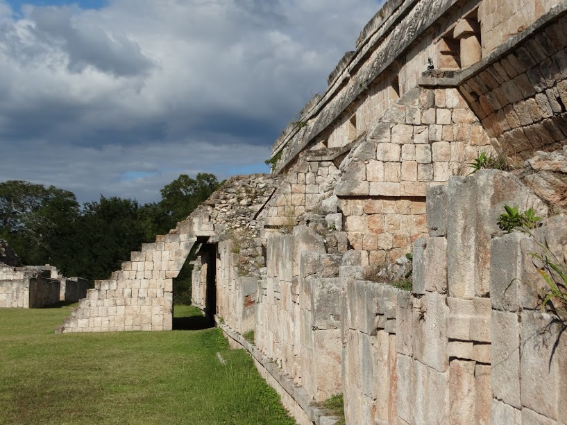 kabah walls and stairs